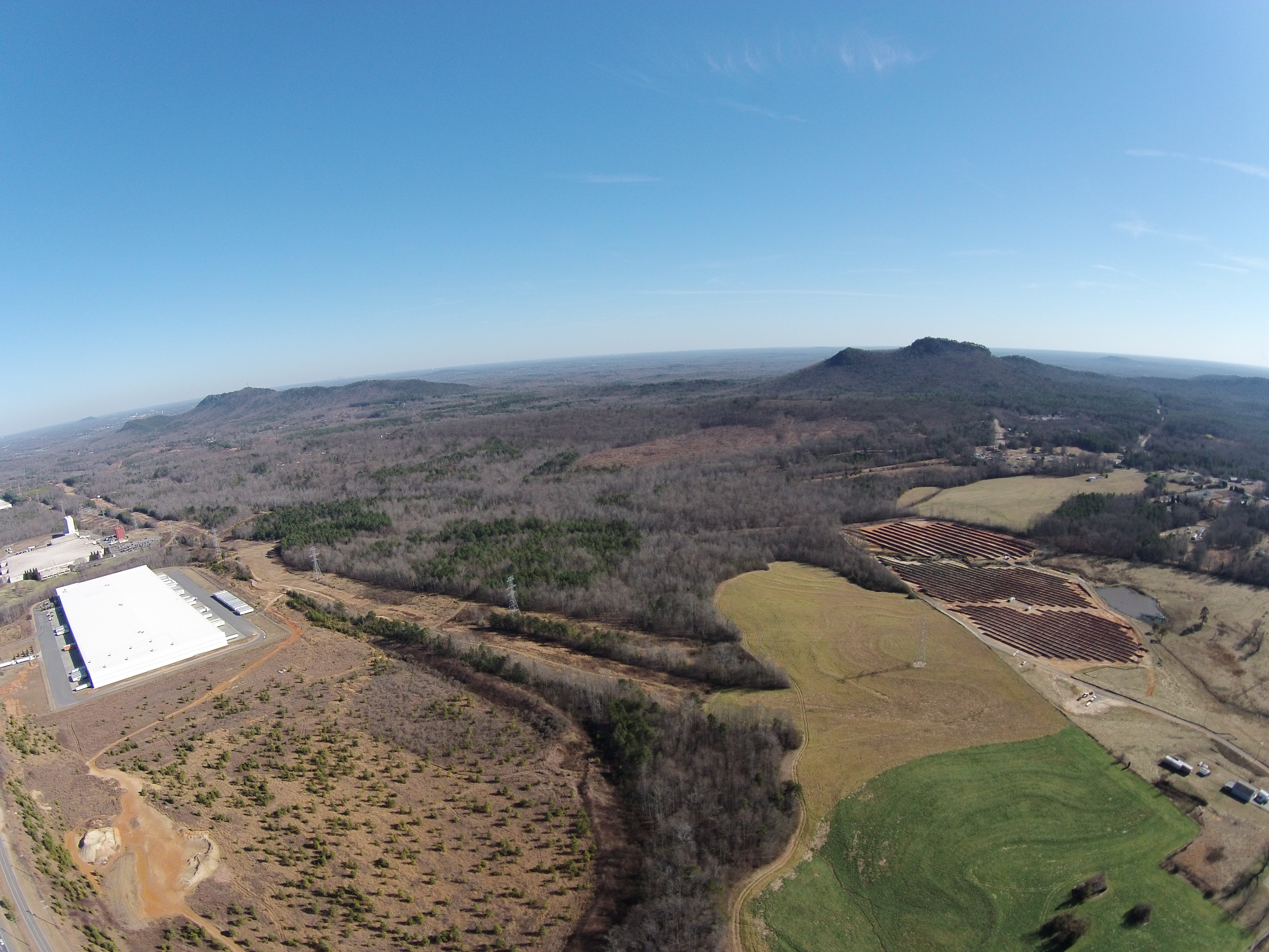 Crowder's Mountain (left) and Kings Pinnacle (right), looking east. Charlotte, NC is barely visible on the horizon looking over the right side of Crowder's Mountain.